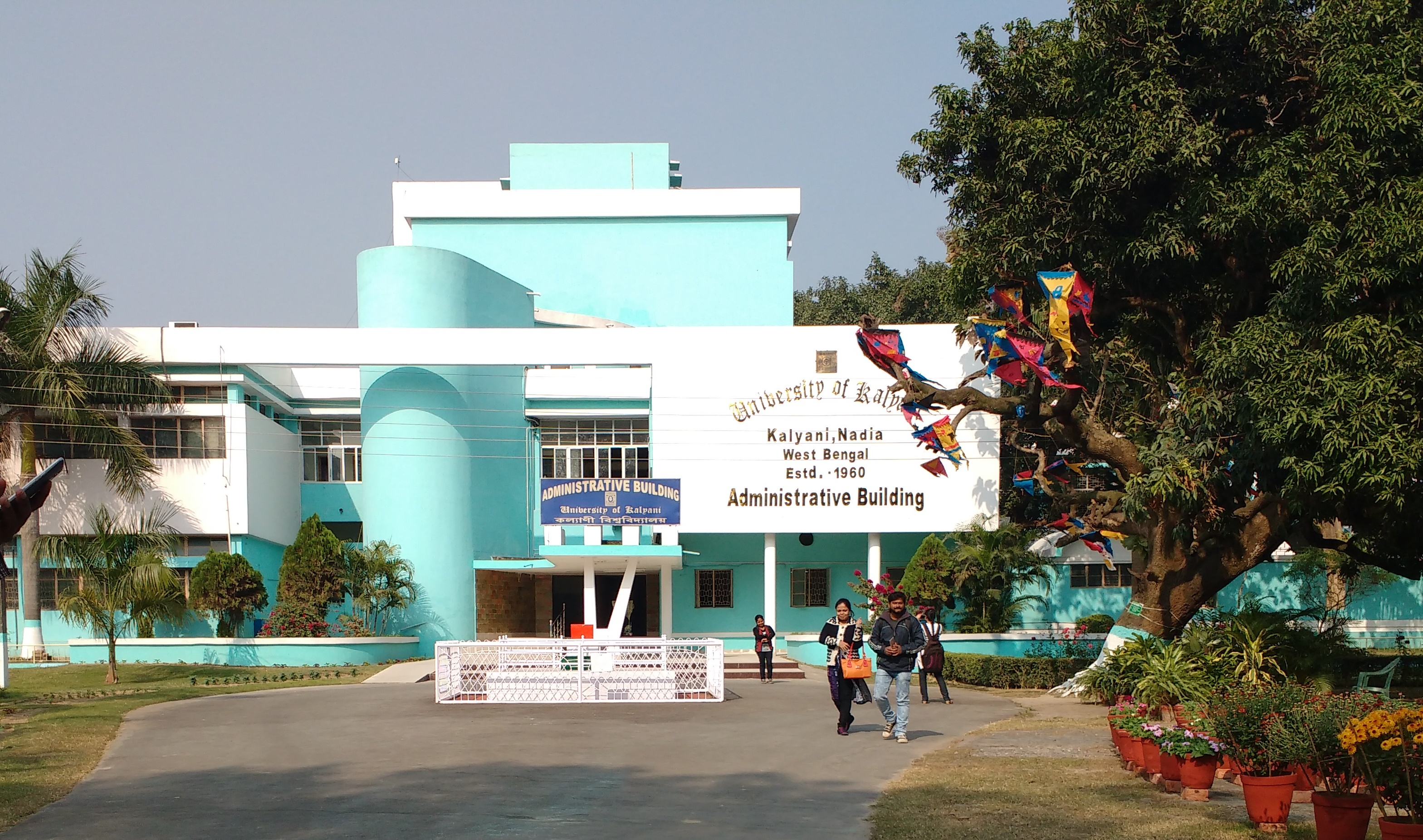 Admin Building